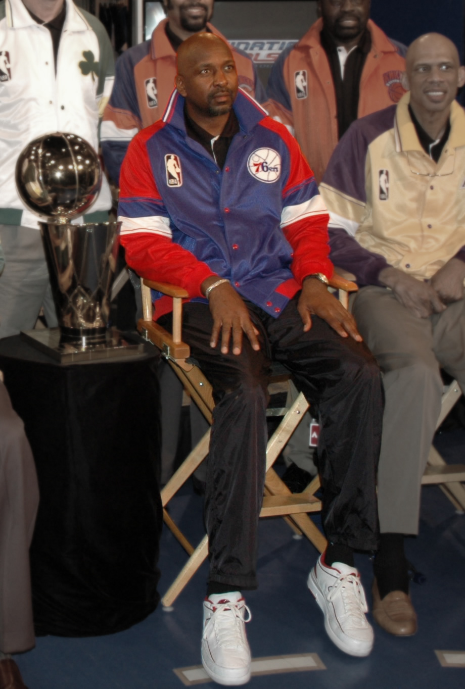 NBA legend Moses Malone